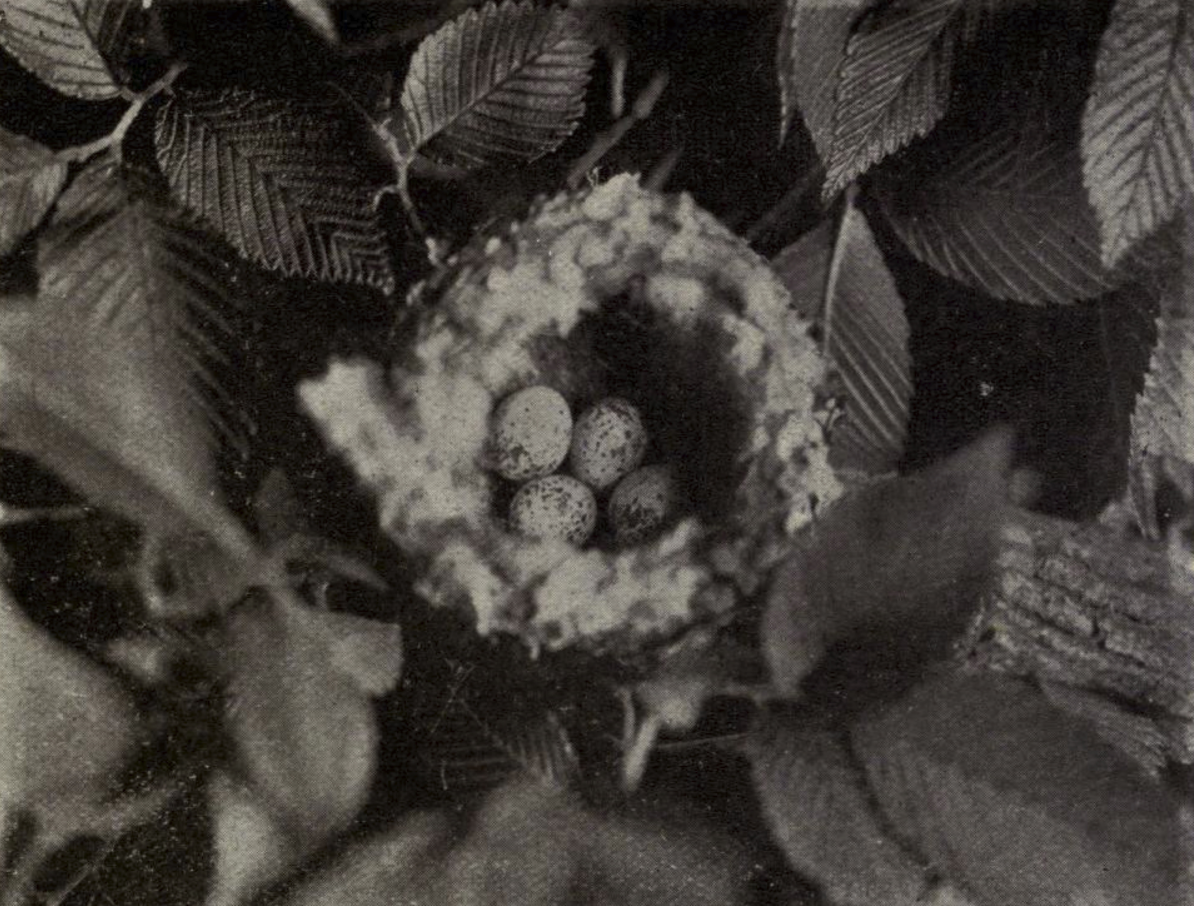 Original caption: "No. 27. Nest and four eggs of Blue-gray Gnatcatcher in elm tree."